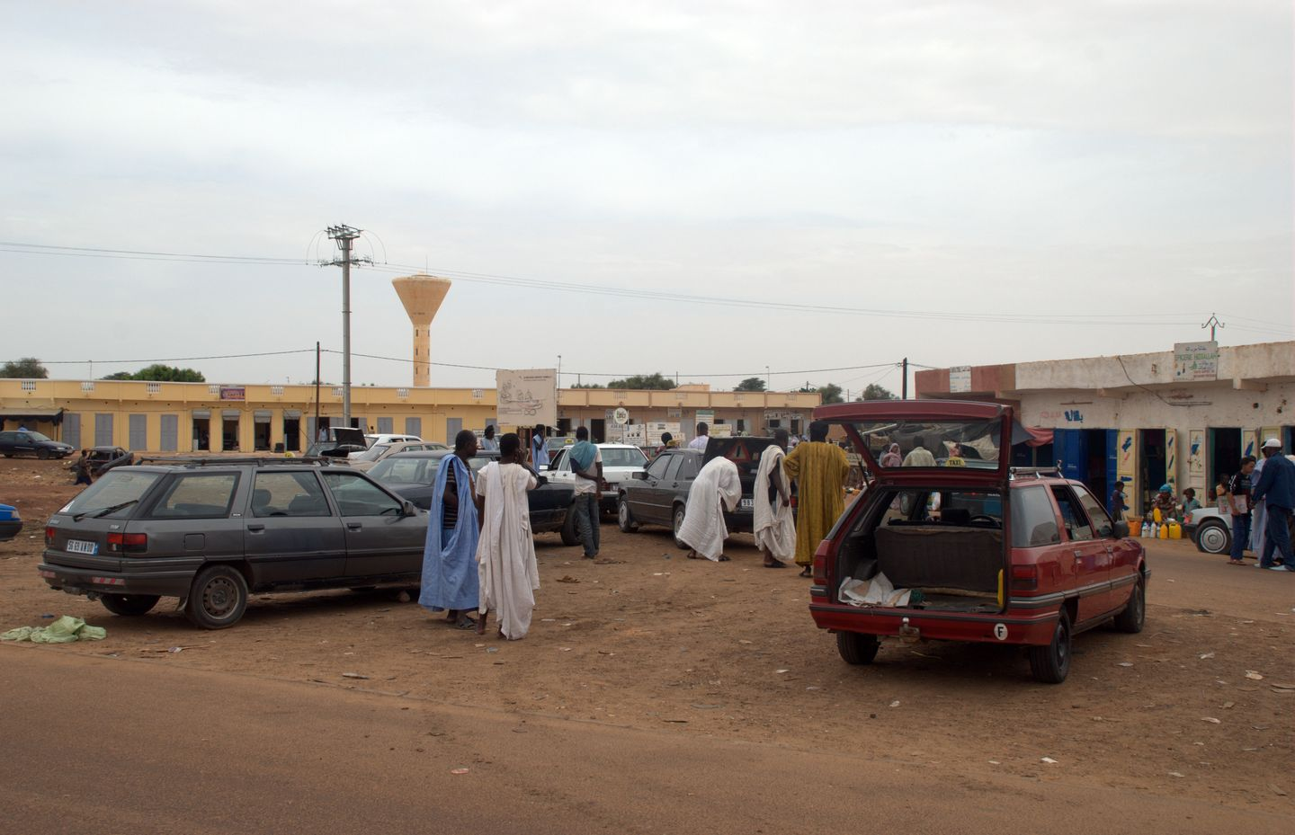 Bogué, Mauritania, taxi stand at main crossroad